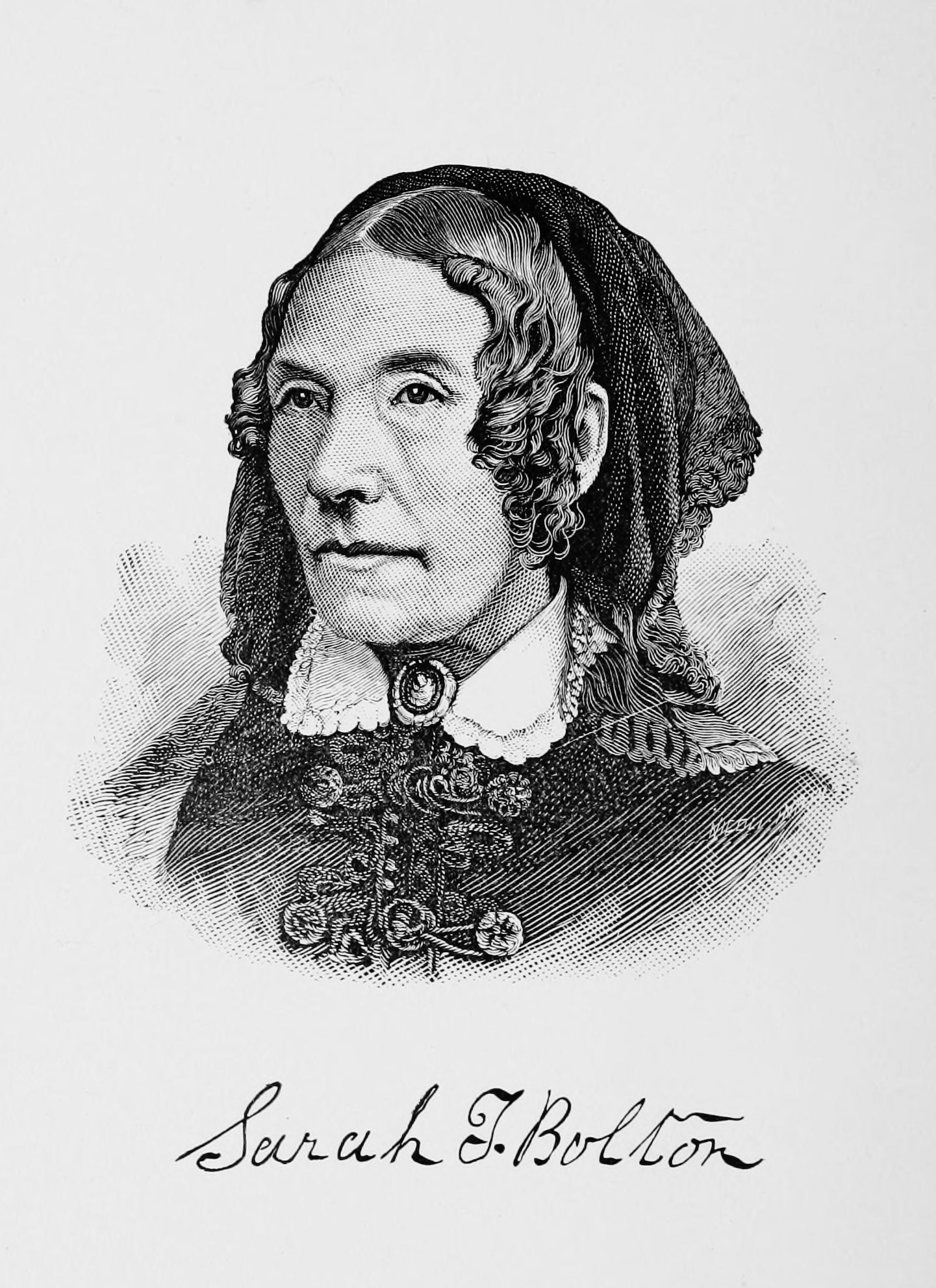 Sarah Tittle Barrett Bolton, from an engraving by John Sartain